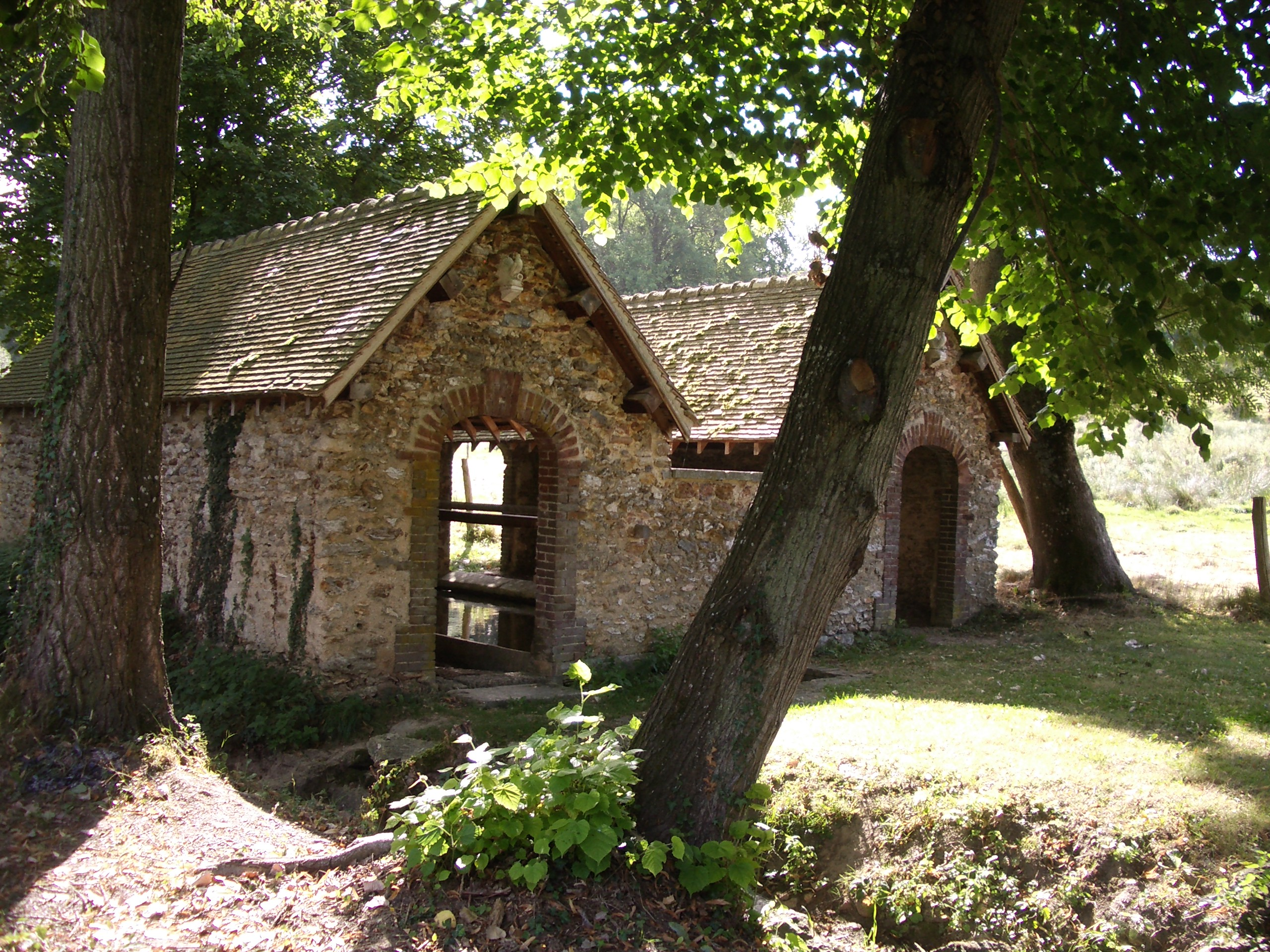 Ste Colombe près Vernon, old washhouse